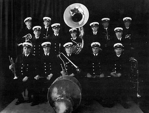 Brass Band. Göteborgs Spårvägars Musikkår